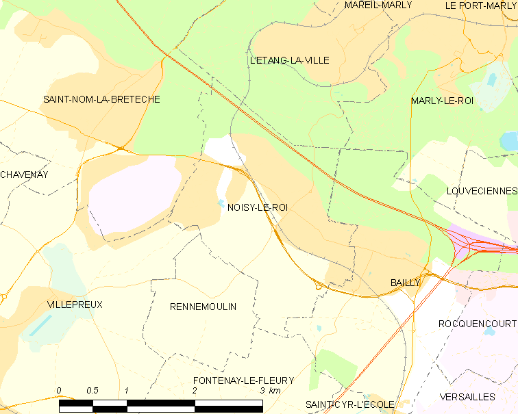 Map of French municipality Noisy-le-Roi